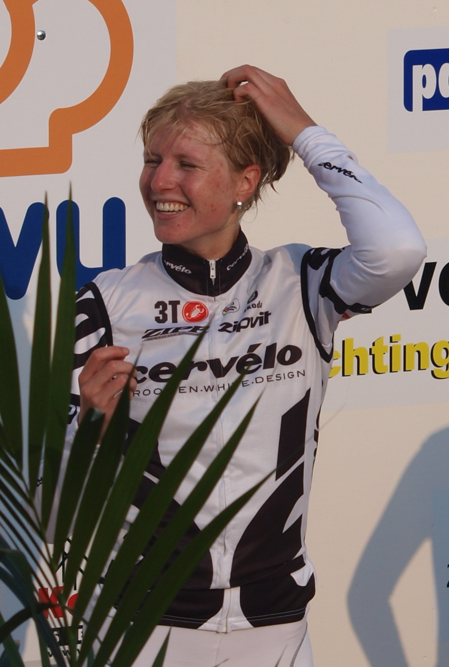 Podium of the 2009 Netherlands national time trial championships. 1. Regina Bruins, 2. Kirsten Wild, 3. Ellen van Dijk